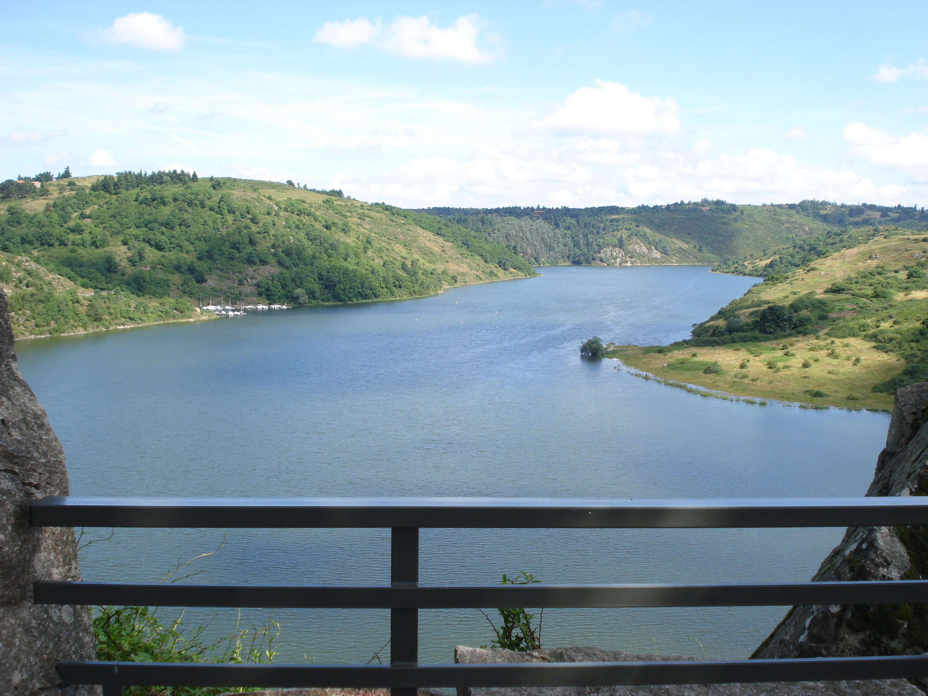 Saint-Jean-Saint-Maurice-sur-Loire, vue sur le Lac de Villerest